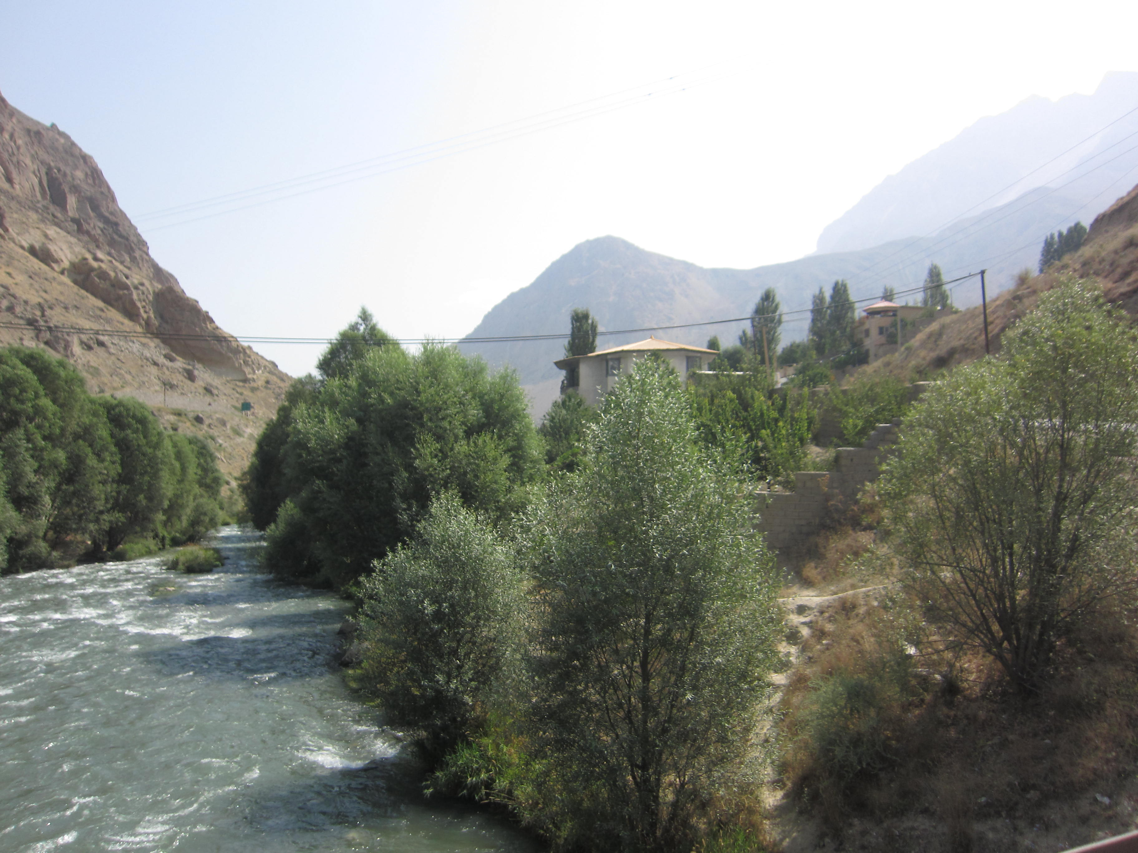 Kandelu village is in the right side of the picture